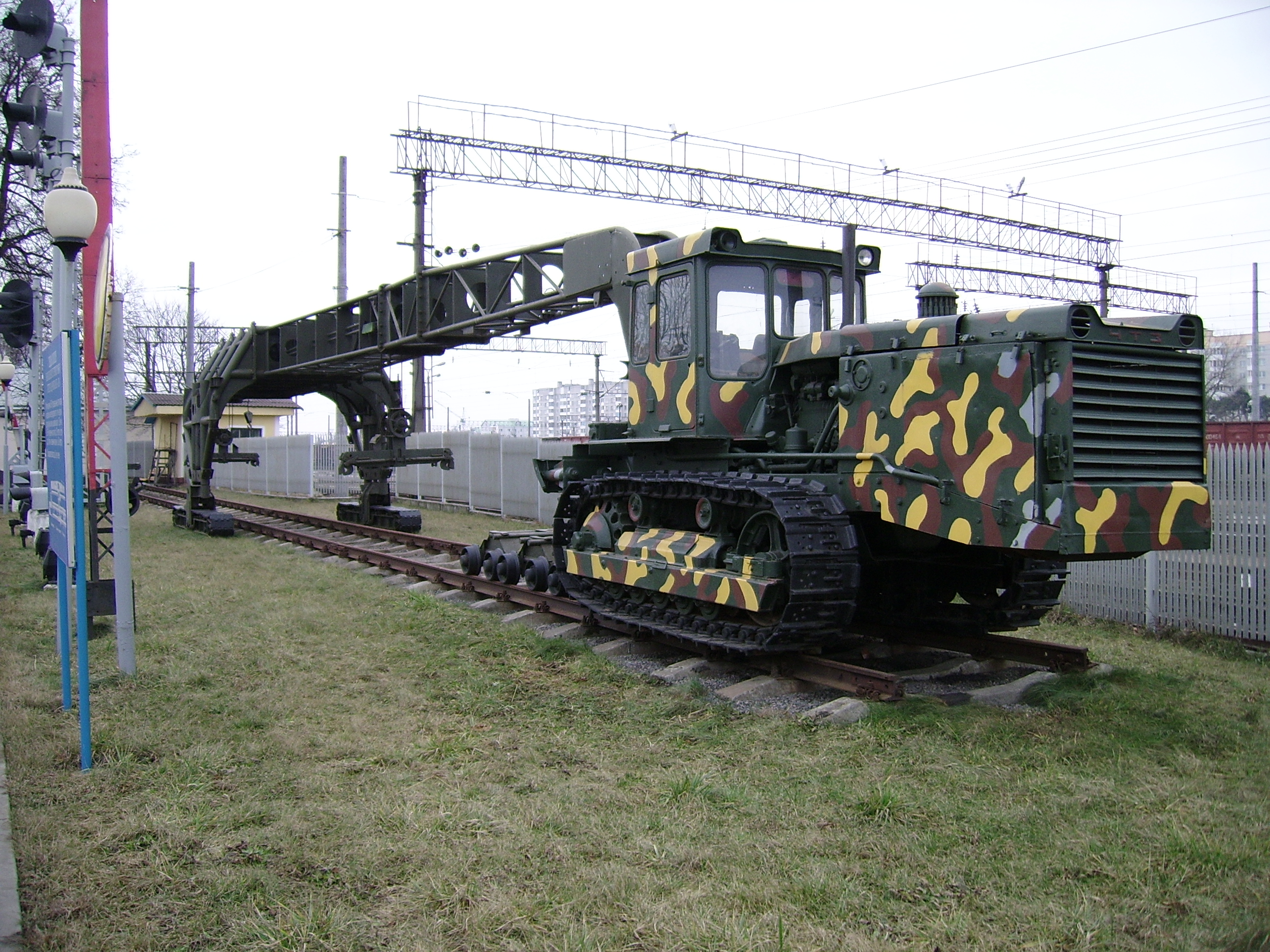 in museums of railway technics of Baranovichi